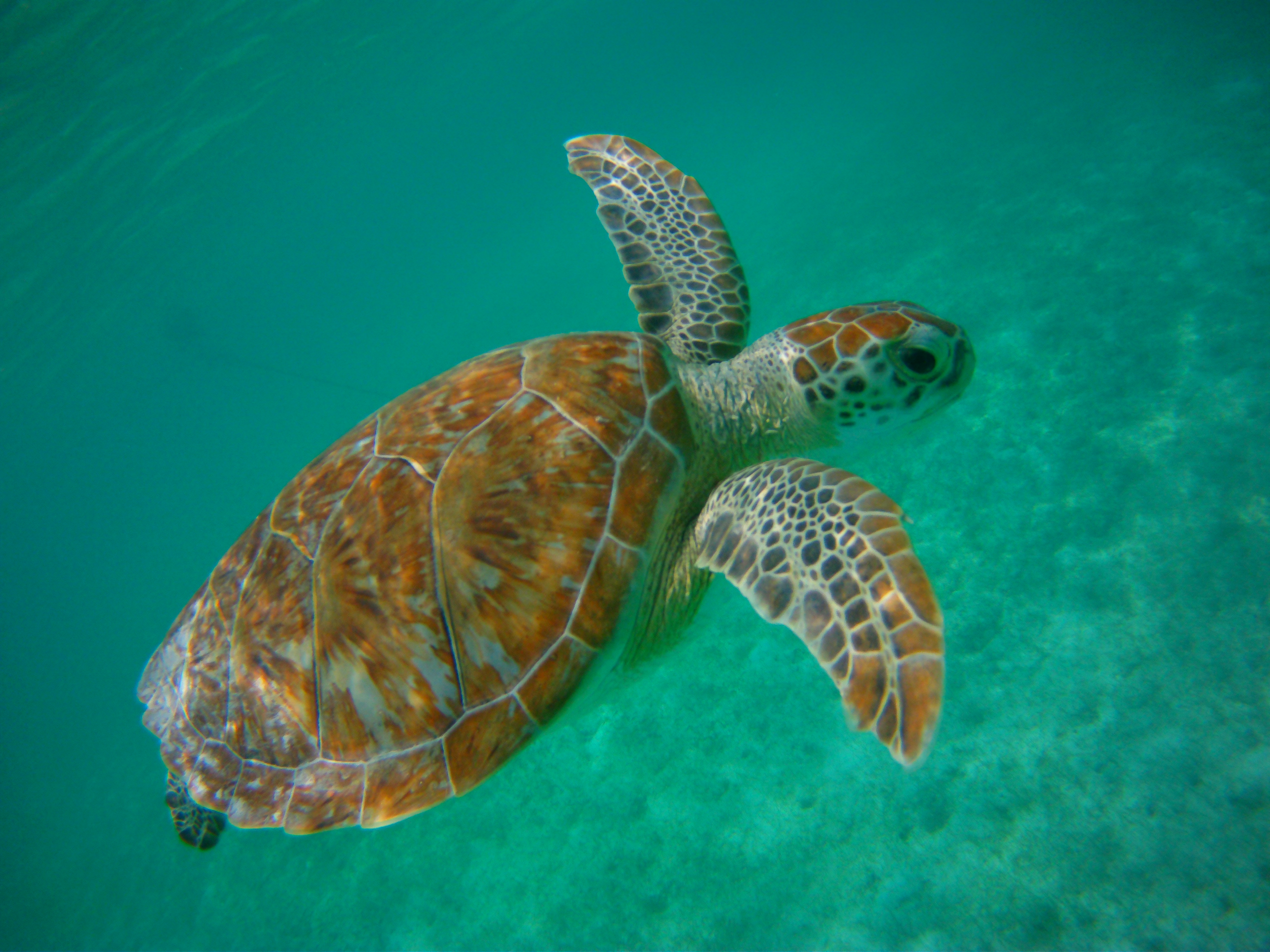 Green sea turtle (Chelonia mydas) swimming in the beaches of Akumal in Cancun (Mexico).